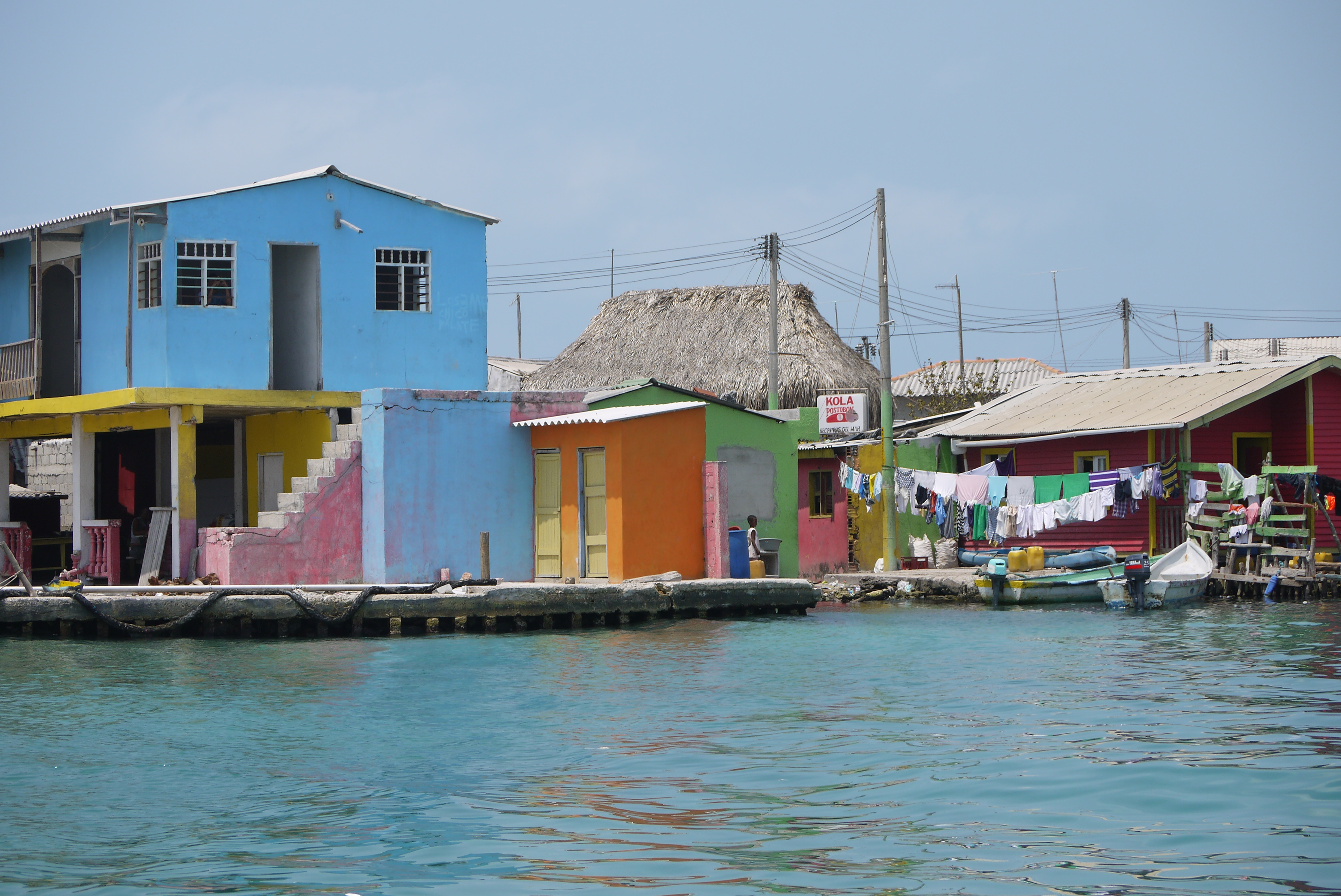 Santa Cruz del Islote